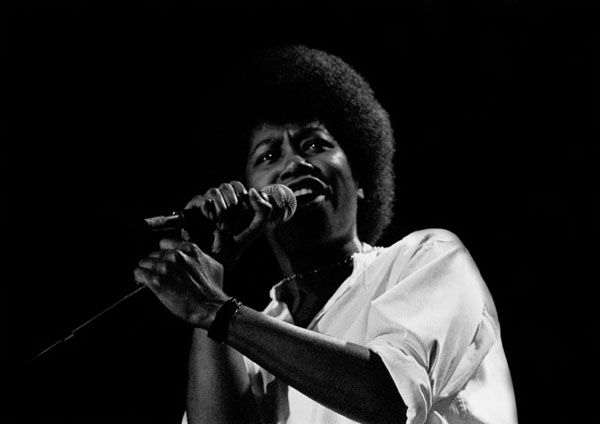 Joan Armatrading performing in Dublin, Ireland